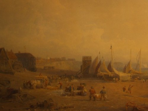 Brighton in 1823, watercolour.